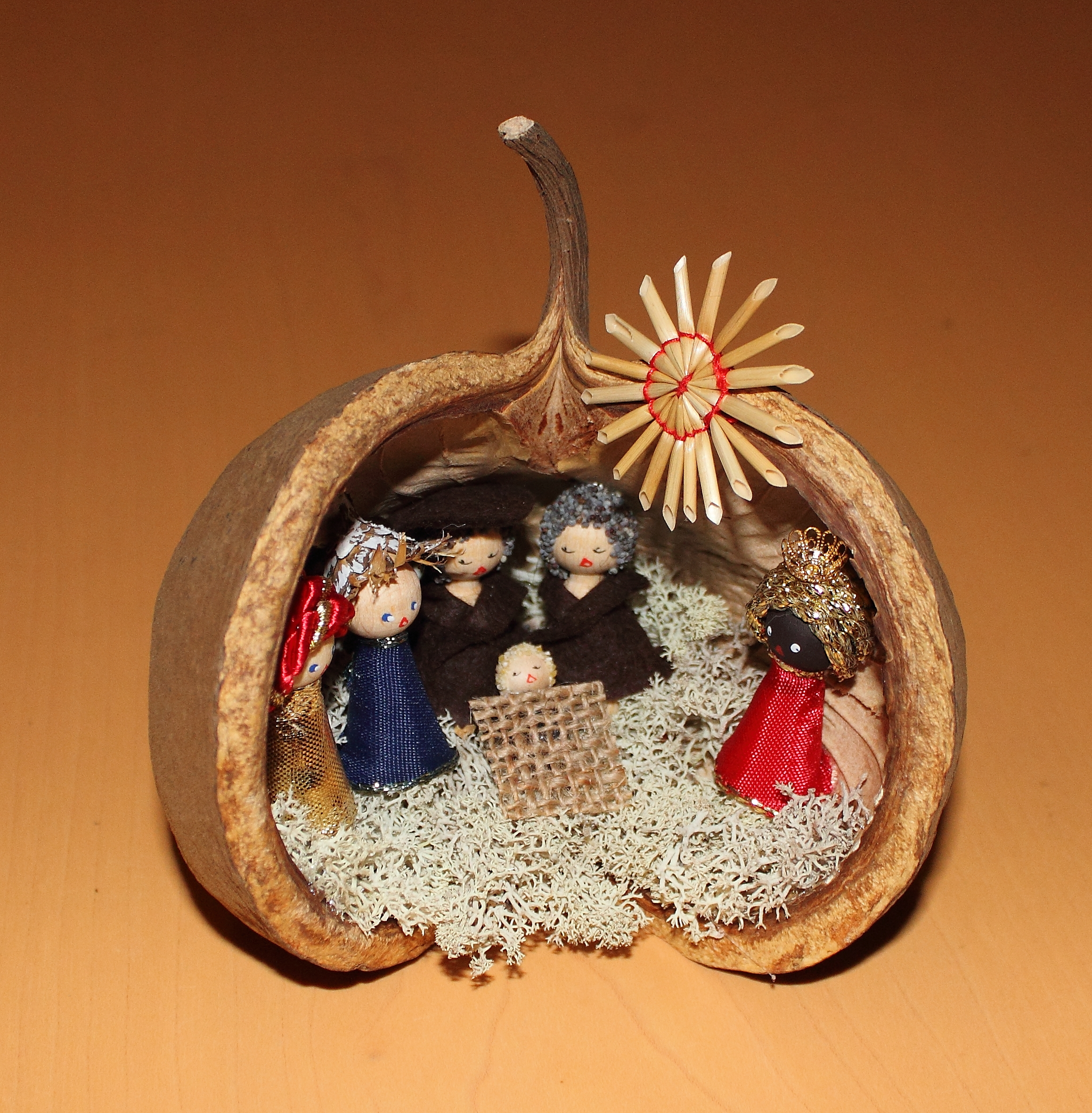 Nativity scene in Fruit of Pterygota alata